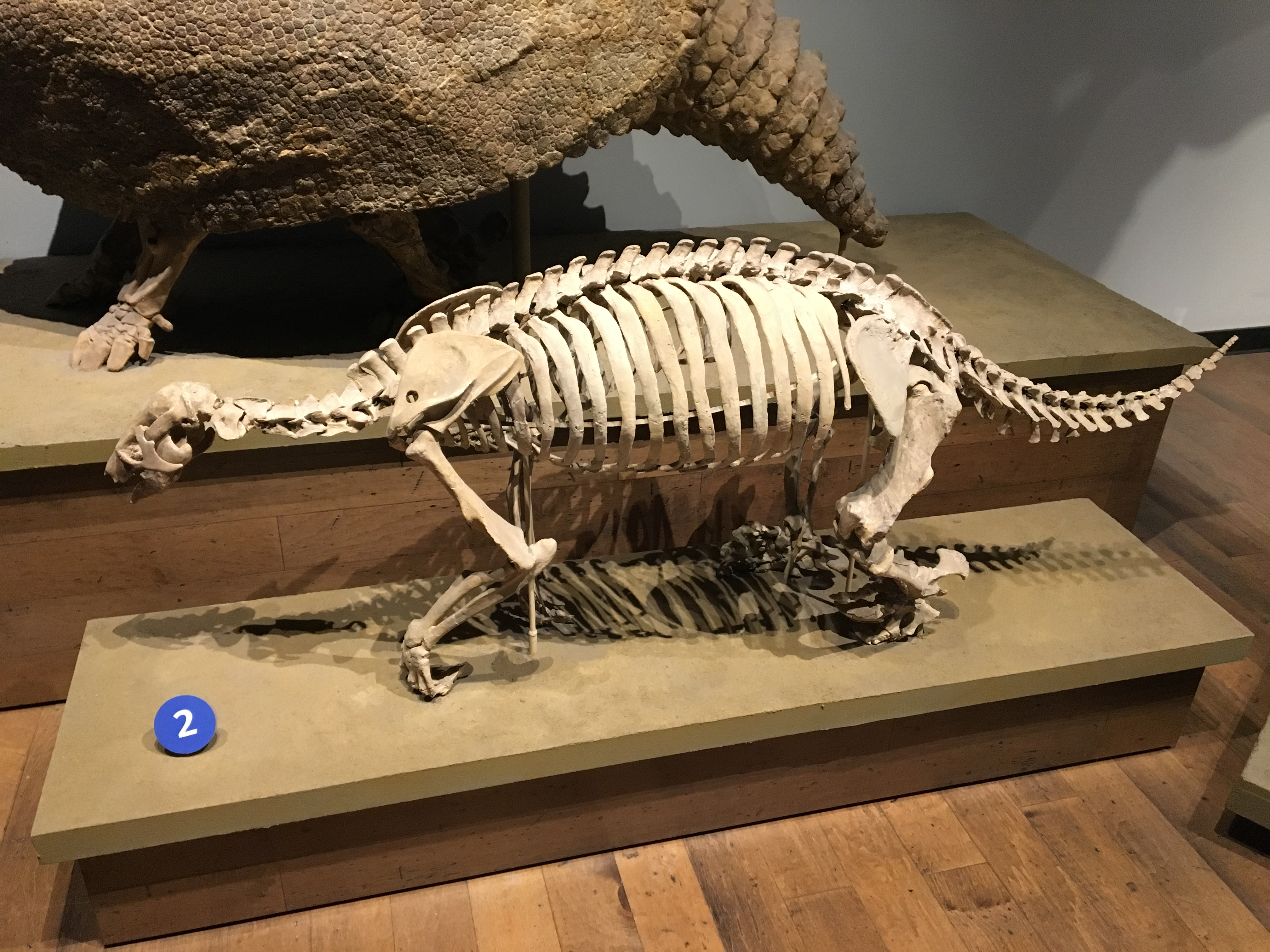 fossil ground sloth at the Field Museum of Natural History, Chicago, IL